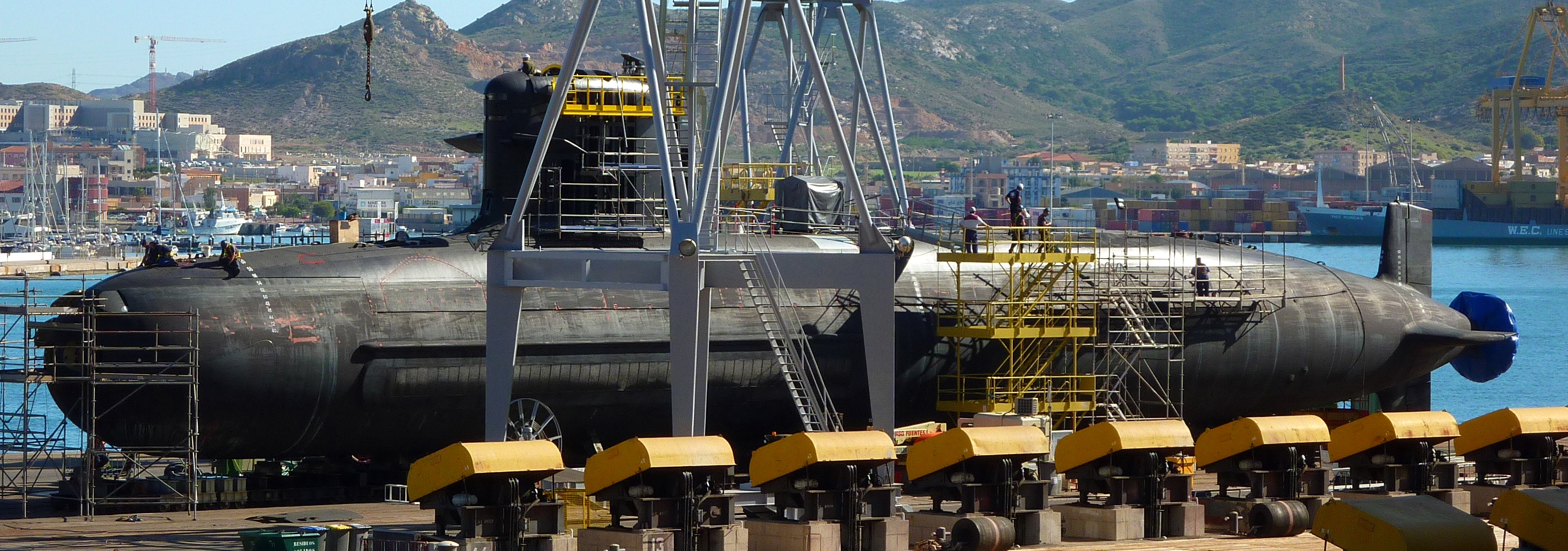 Scorpène Class Malaysian Navy submarine "Tun Razak" in the shipyard of Navantia-Cartagena (Spain) few days prior to its delivery.